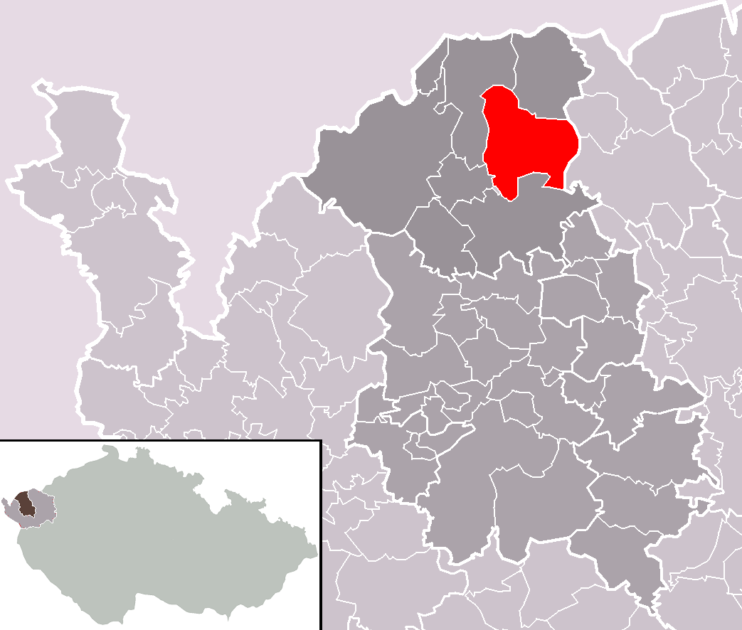 Location of Šindelová municipality within Sokolov District and administrative area of Kraslice as a Municipality with Extended Competence.